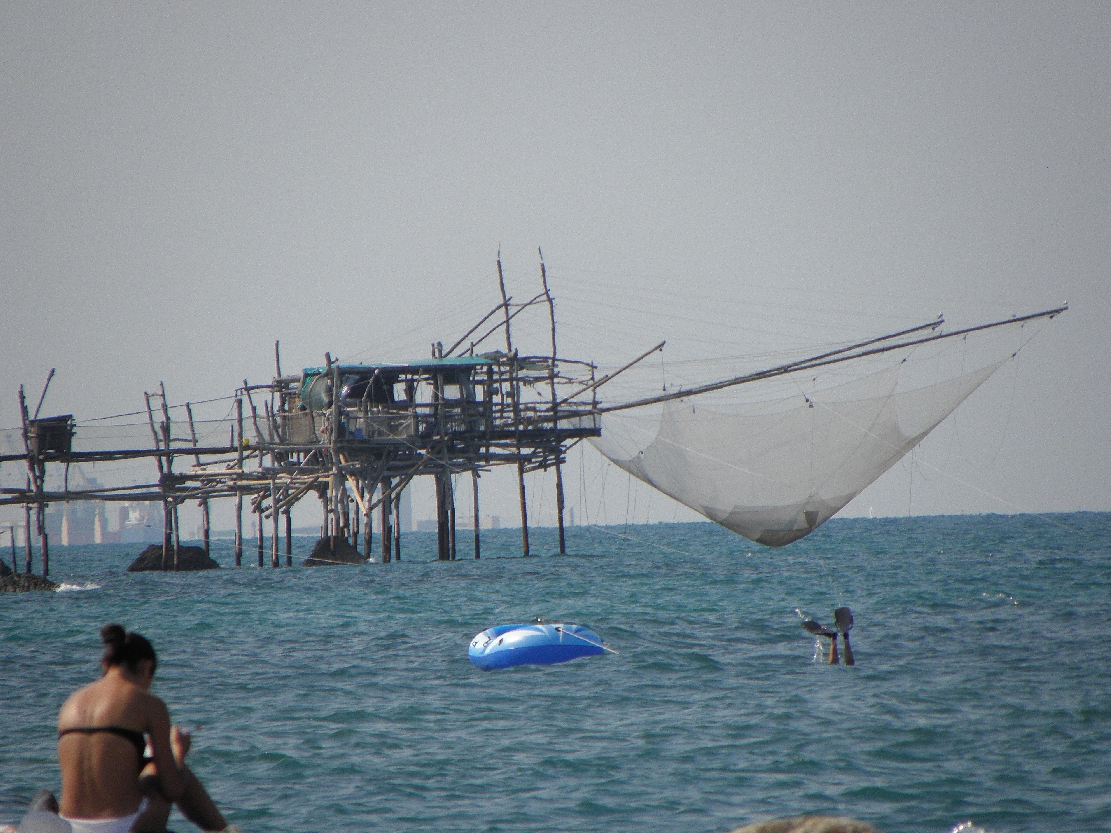 Contrada Foce